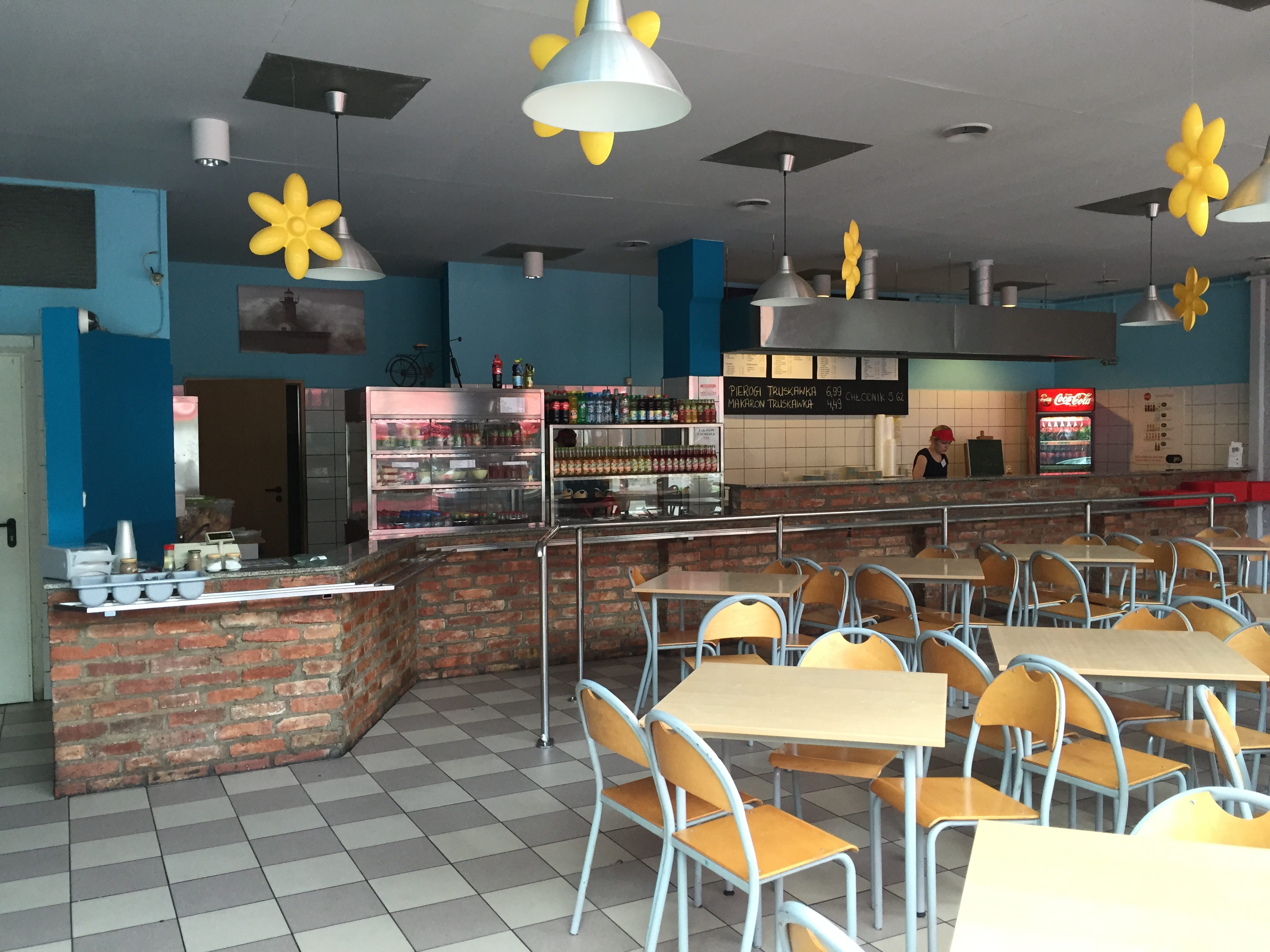 Polish Milk Bar (cafeteria) in Gdansk - view of interior. Bar Mleczny Przy Rynku, Jagiellońska 2, 80-371 Gdańsk, Polska.